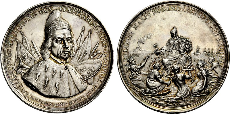 Italy, Venice. Francesco Morosini. 1688-1694. Medal (Silver, 61mm, 89.27 g 12), on the victories of Venice against the Ottomans, by P. H. Müller, Nuremberg, 1688. FRANCISCUS MAUROCENUS DUX VENETIARUM A 1688 D 3 APRIL / NIL DESPERANDUM TEURCRO DUCE (=no need to despair with Teucer as your leader, Horace Odes, I, vii, 27) Facing bust of Morosini, turned slightly to the right, wearing doge’s corno and robes; behind flags of Venice and the allies, shield of Moroini and arms; should truncation, P.H.M. On edge: VIDERVNT INSVLAE ET TIMVERVNT EXTREMAE TERRAE OBSTVPERVERVNT ET ACCESSERVNT ESAI 4I (= Isaiah 41: 5, The coast lands have seen and became afraid. The ends of the earth were astonished, they drew near, and came.) FK (= Friederich Kleinert, ) Rev. ADRIATICI MARIS DOMINA ARCHIPELAGI REGINA (=Dominatrix of the Adriatic Sea, Queen of the Islands) Figure of Venice seated facing on a throne in the sea; before her, the labeled personifications of the MOREA, CANDIA, ATHENAE, NEGROPONT and CYPRVS; behind, ships and volcano. MH 91. Toderi/Vannel 1990, 55. Voltolina 1066. Very rare. Lightly toned and beautifully struck. Extremely fine.